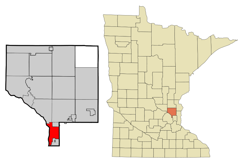 This map shows the incorporated and unincorporated areas in Anoka County, highlighting Fridley in red. This file has been updated to reflect the recent incorporation of new municipalities.